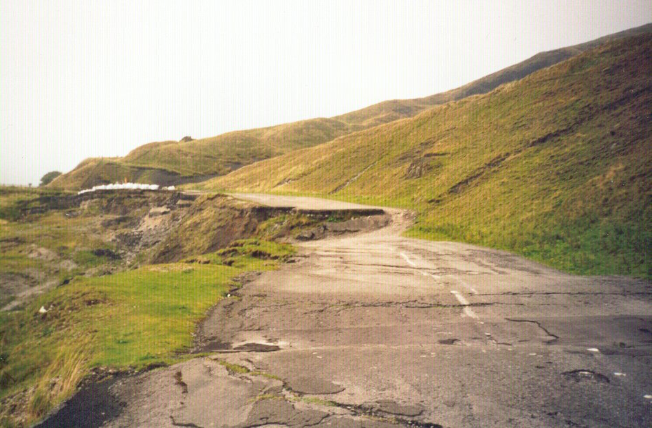 A section of the A6187 road, near Castleton, UK, destroyed by geological subsidence. Now permanently closed. See Mam Tor, A625 road. See the plaque erected by the council for an explanation